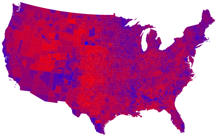 Gastner map purple byarea bycounty